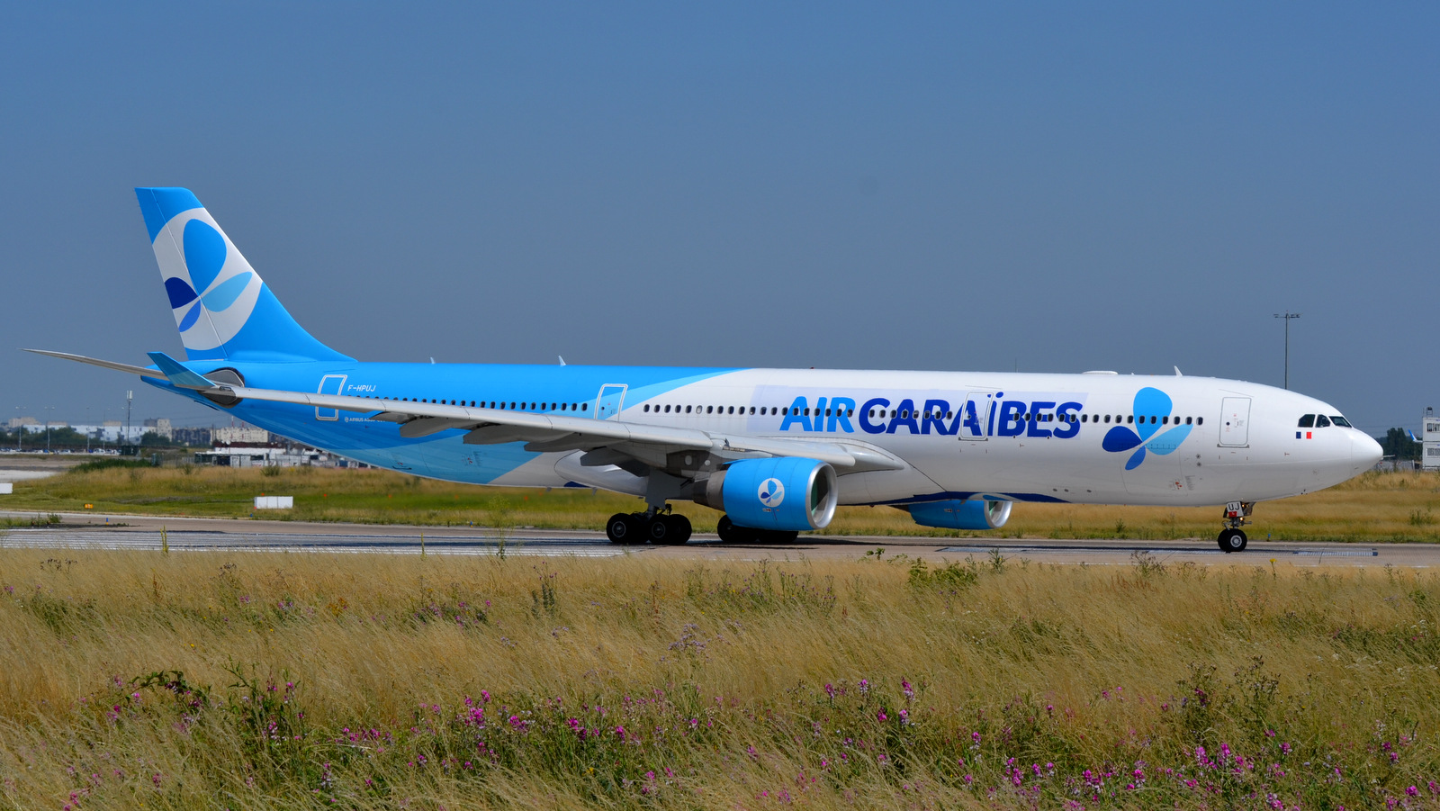 Paris-Orly Airport